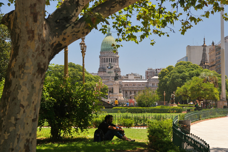 Plaza of th Two Congresses, Buenos Aires.